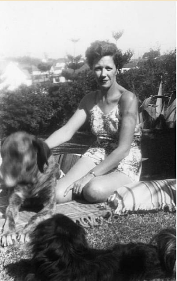 Photograph of Helen Joseph, first published in 1941